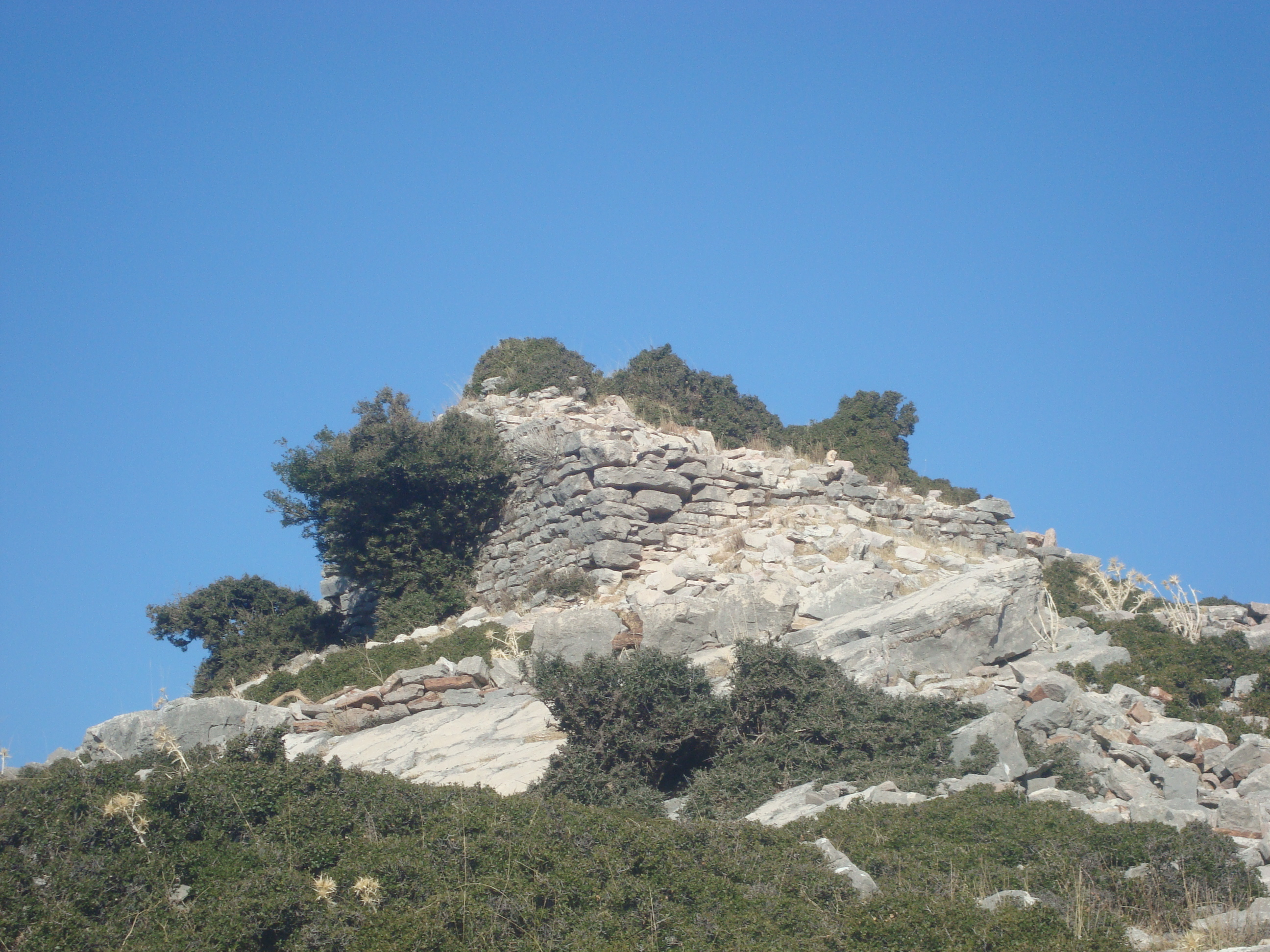 Sidirokastro (Iron Castlle) in Krini Patras Achaia Greece